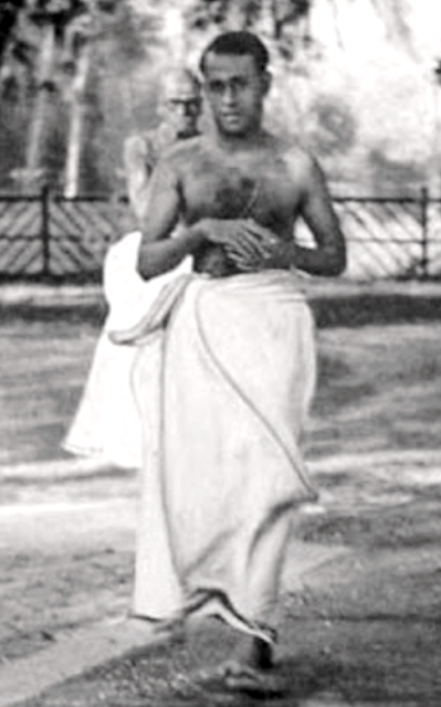 This is the picture of the last reigning King of Travancore(India), Maharajah Sree Chithira Thirunal Balarama Varma, who passed away in 1991.